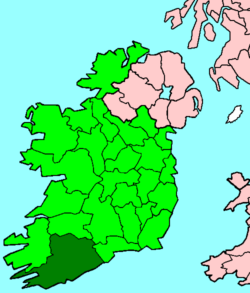 Cork